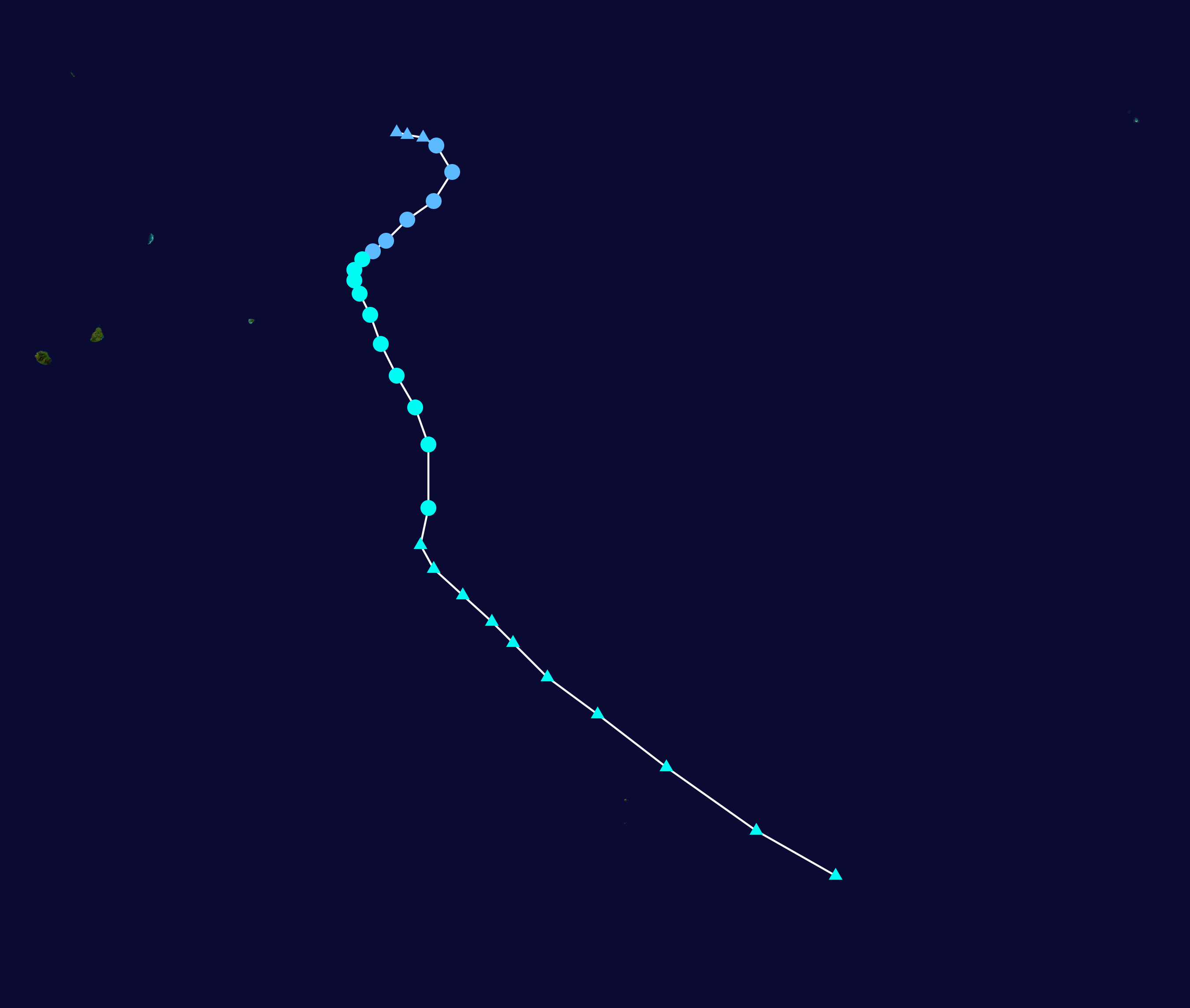 Track map of Severe Tropical Storm Dongo of the 2008-09 South West Indian Ocean cyclone season. The points show the location of the storm at 6-hour intervals. The colour represents the storm's maximum sustained wind speeds as classified in the Saffir–Simpson scale (see below), and the shape of the data points represent the nature of the storm, according to the legend below. Saffir–Simpson scale Tropical depression≤38 mph≤62 km/h Category 3111–129 mph178–208 km/h Tropical storm39–73 mph63–118 km/h Category 4130–156 mph209–251 km/h Category 174–95 mph119–153 km/h Category 5≥157 mph≥252 km/h Category 296–110 mph154–177 km/h Unknown Storm type Tropical cyclone Subtropical cyclone Extratropical cyclone / Remnant low / Tropical disturbance / Monsoon depression